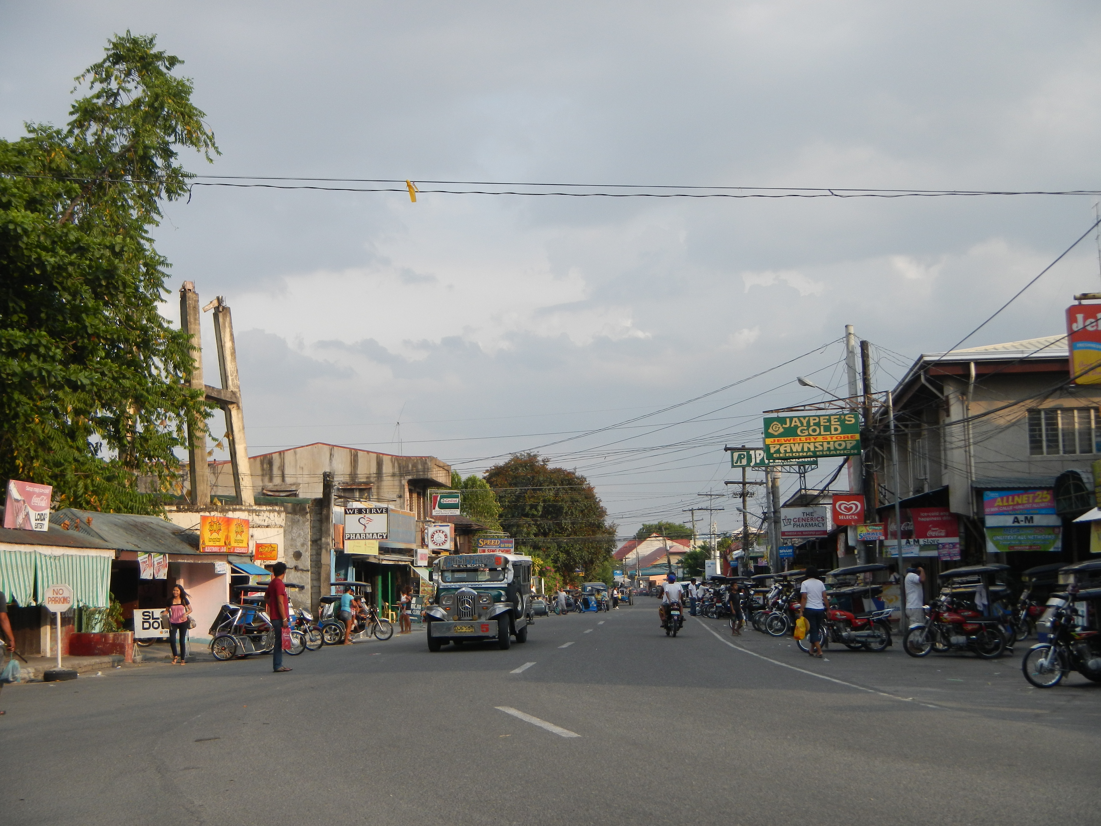 Gerona, Tarlac[1]Gerona is a first-class municipality in the province of Tarlac, Philippines. According to the 2010 census, it has a population of 83,084 people. The MacArthur Highway goes through the center of the town. Gerona has a land area of 12,889 hectares (31,850 acres) of plain and rugged agricultural land representing 4.63% of the province total area. The Tarlac River, which originates from the eastern slopes of the Zambales Mountain, cuts across the west central areas, dividing the town into two parts.[2]Area: 128.89 km² ZIP Code: 2302[3]The history of the Municipality of Gerona can be traced back during the reign of the Spaniards, when the Dominican Missionaries in the Philippines started to propagate the Catholic faith in the whole archipelago in 1704.[4]This place is situated in Tarlac, Region 3, Philippines, its geographical coordinates are 15° 36' 23" North, 120° 36' 0" East and its original name (with diacritics) is Gerona. original name: Gerona - geographical location: Tarlac, Region 3, Philippines, Asia geographical coordinates: 15° 36' 23" North, 120° 36' 0" East[5]Isdaan Floating Restaurant